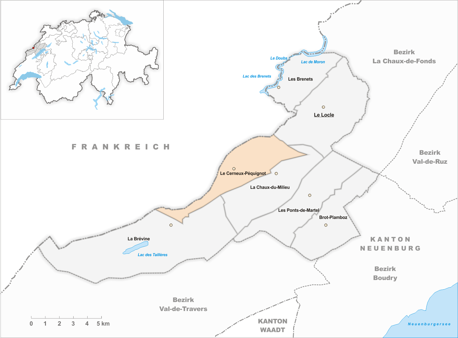 Municipality Le Cerneux-Péquignot